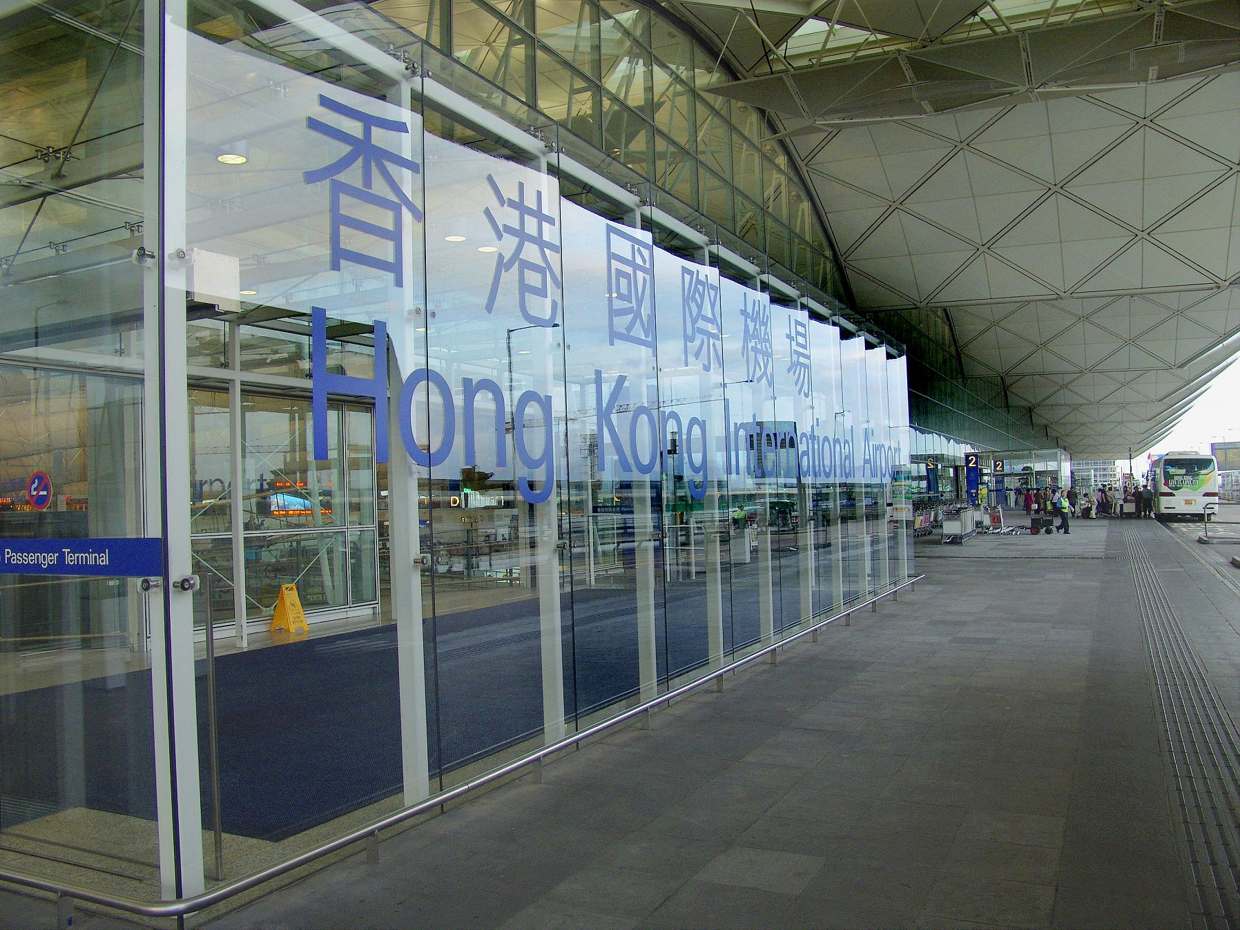 Enterance to Departures Hall of the Hong Kong International Airport